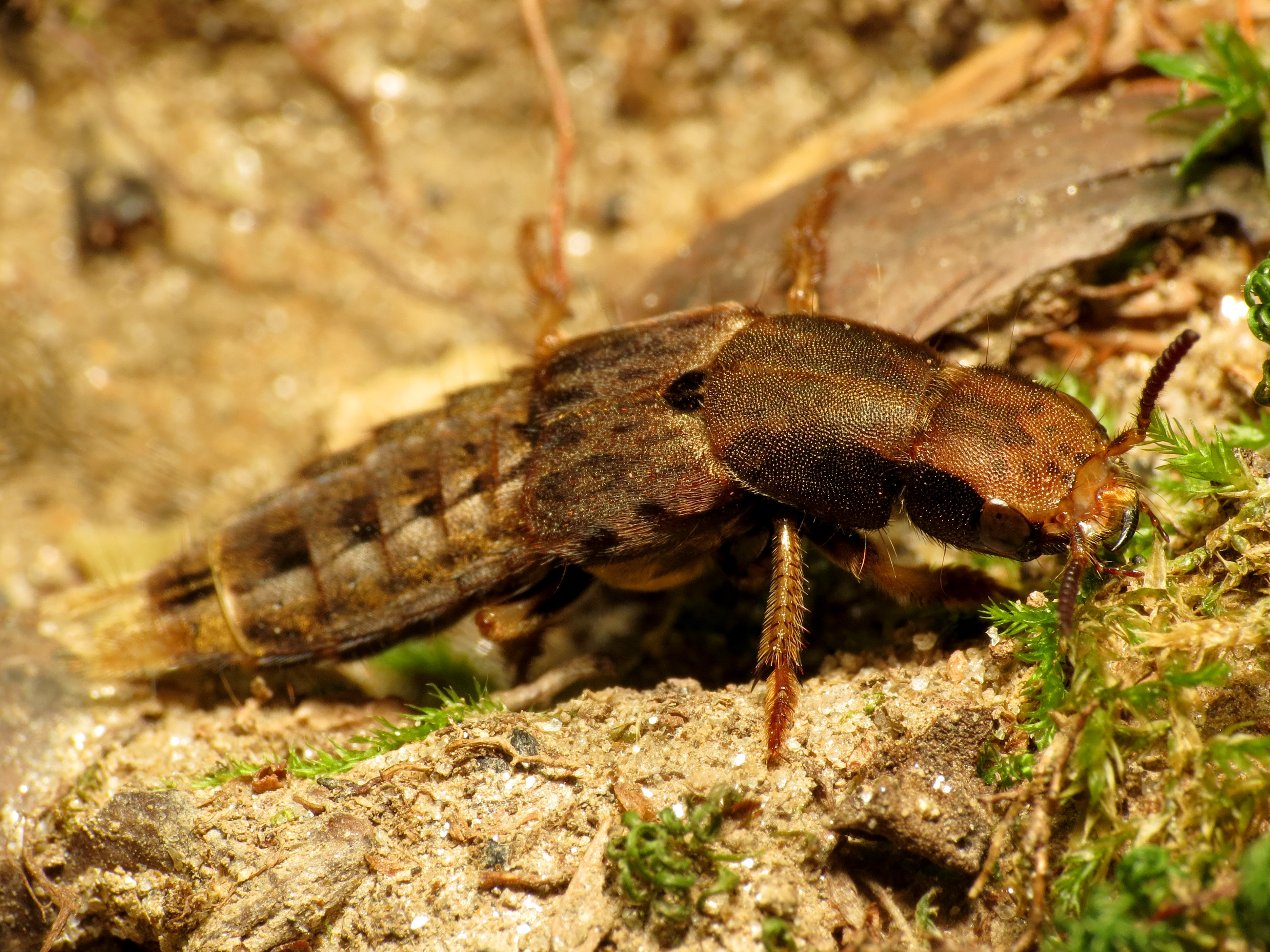 Platydracus maculosus. Rock Creek Park, Washington, DC, USA